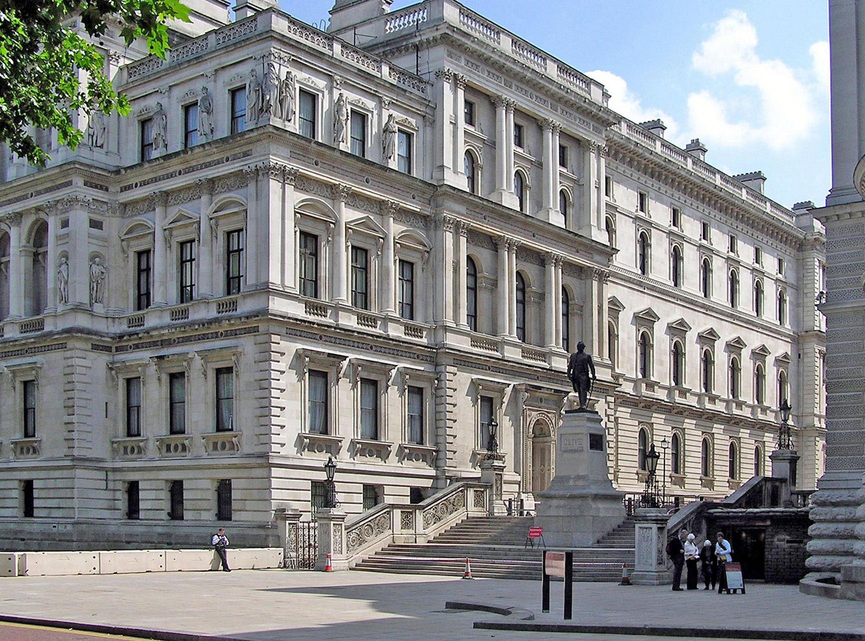 The Foreign and Commonwealth Office, Whitehall, London, England. The part shown faces St James's Park. On the right is a corner of the Treasury. The statue is Clive